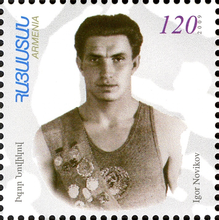 Armenian Olympic Champions - Igor Novikov